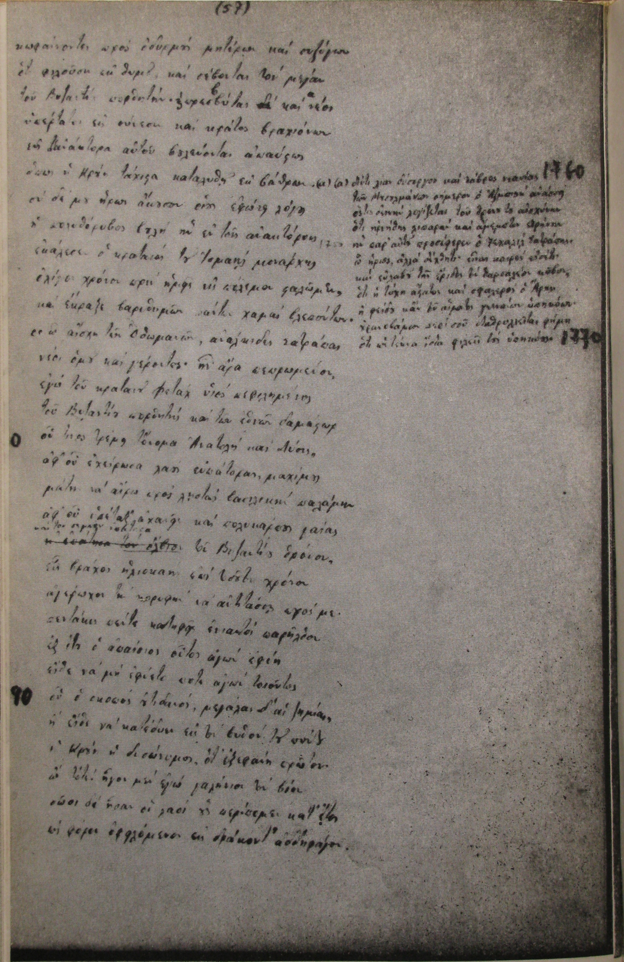 A page from the manuscript of Grigor Parlichev's poem Skenderbeg (c. 1861).